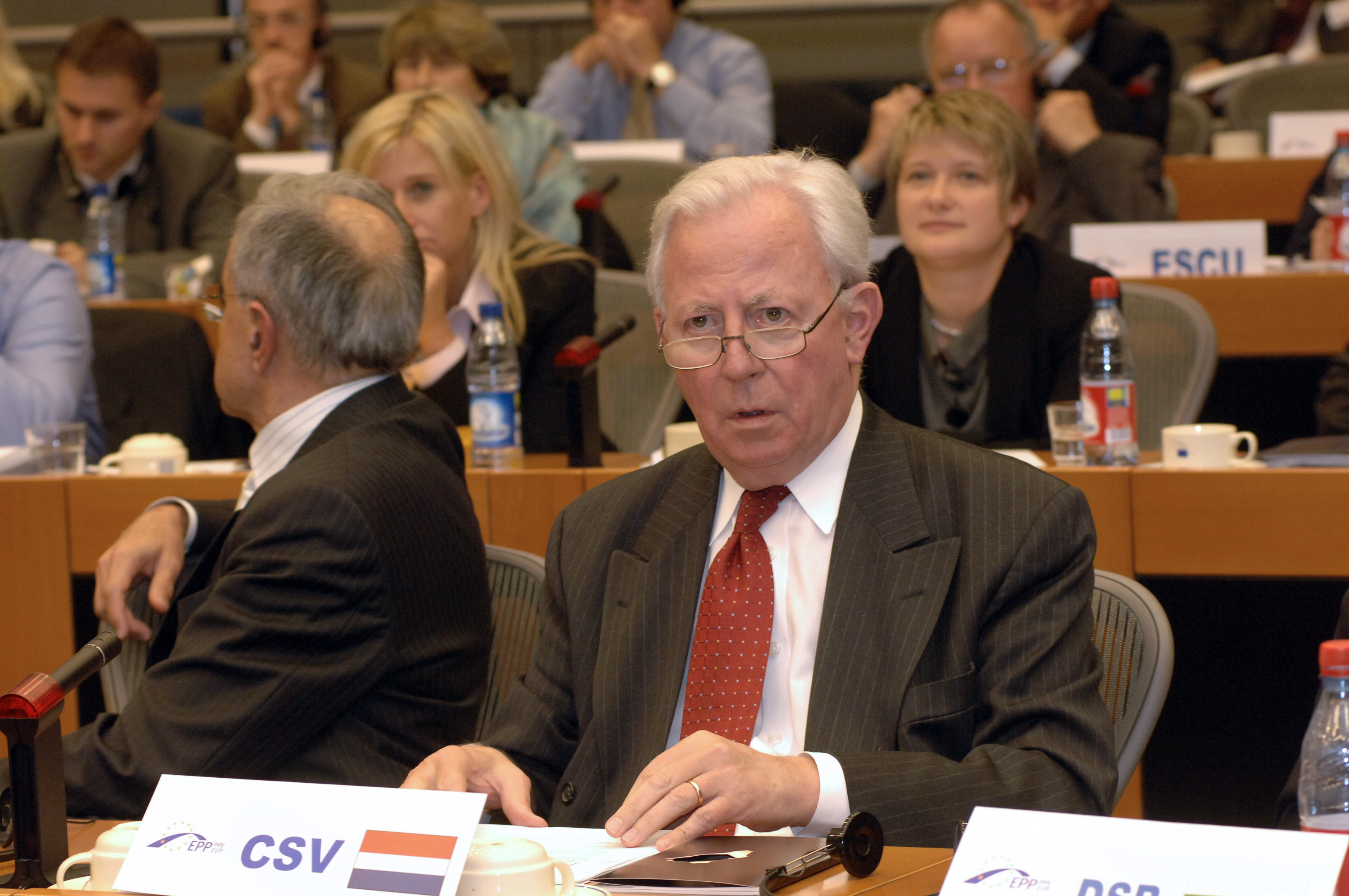 EPP Political Bureau 9 November 2006